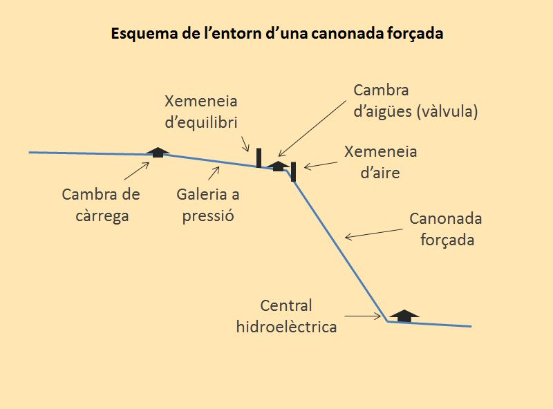 Penstock and its environment